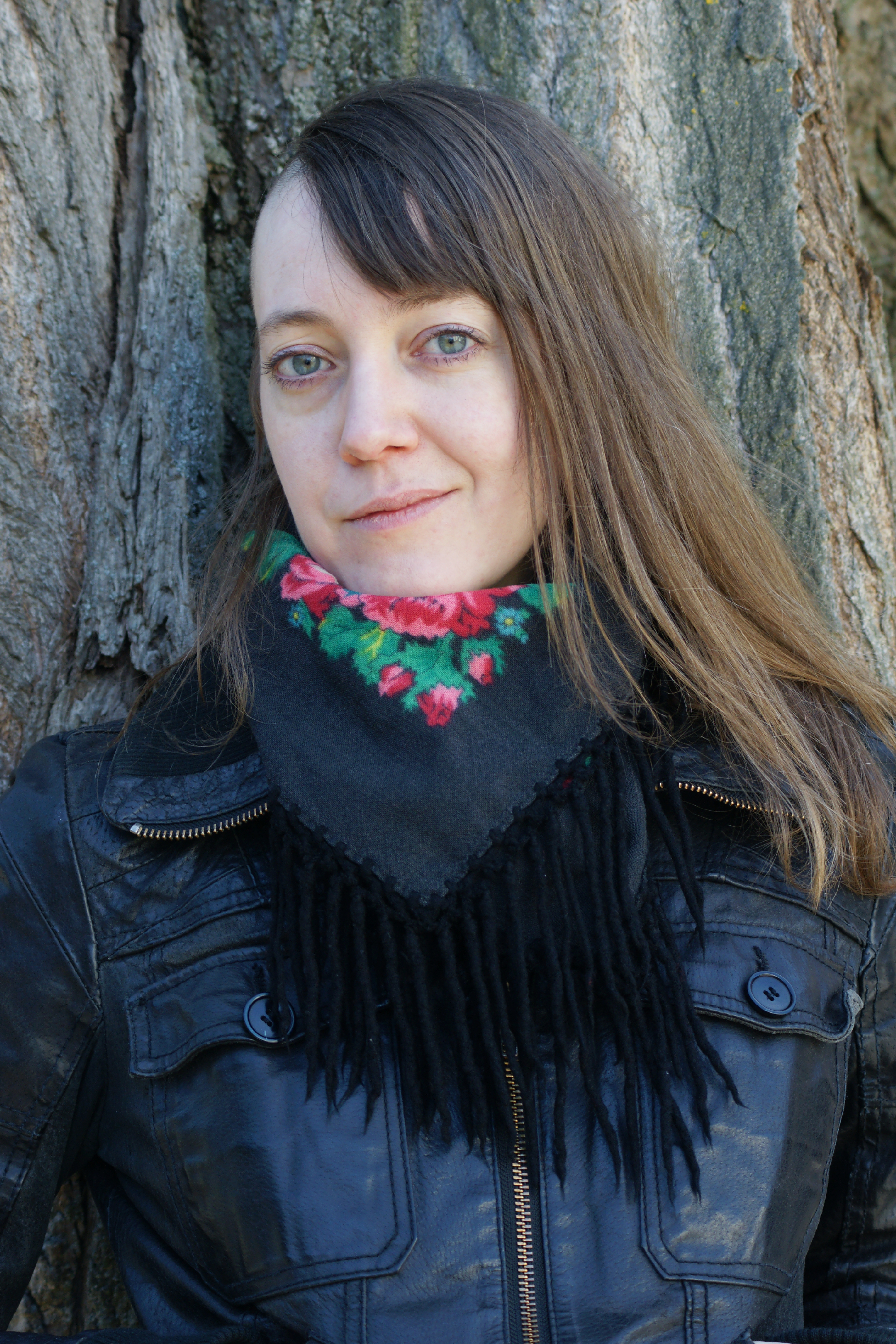 Swedish author Lina Arvidsson during a visit to Göteborg 2017.